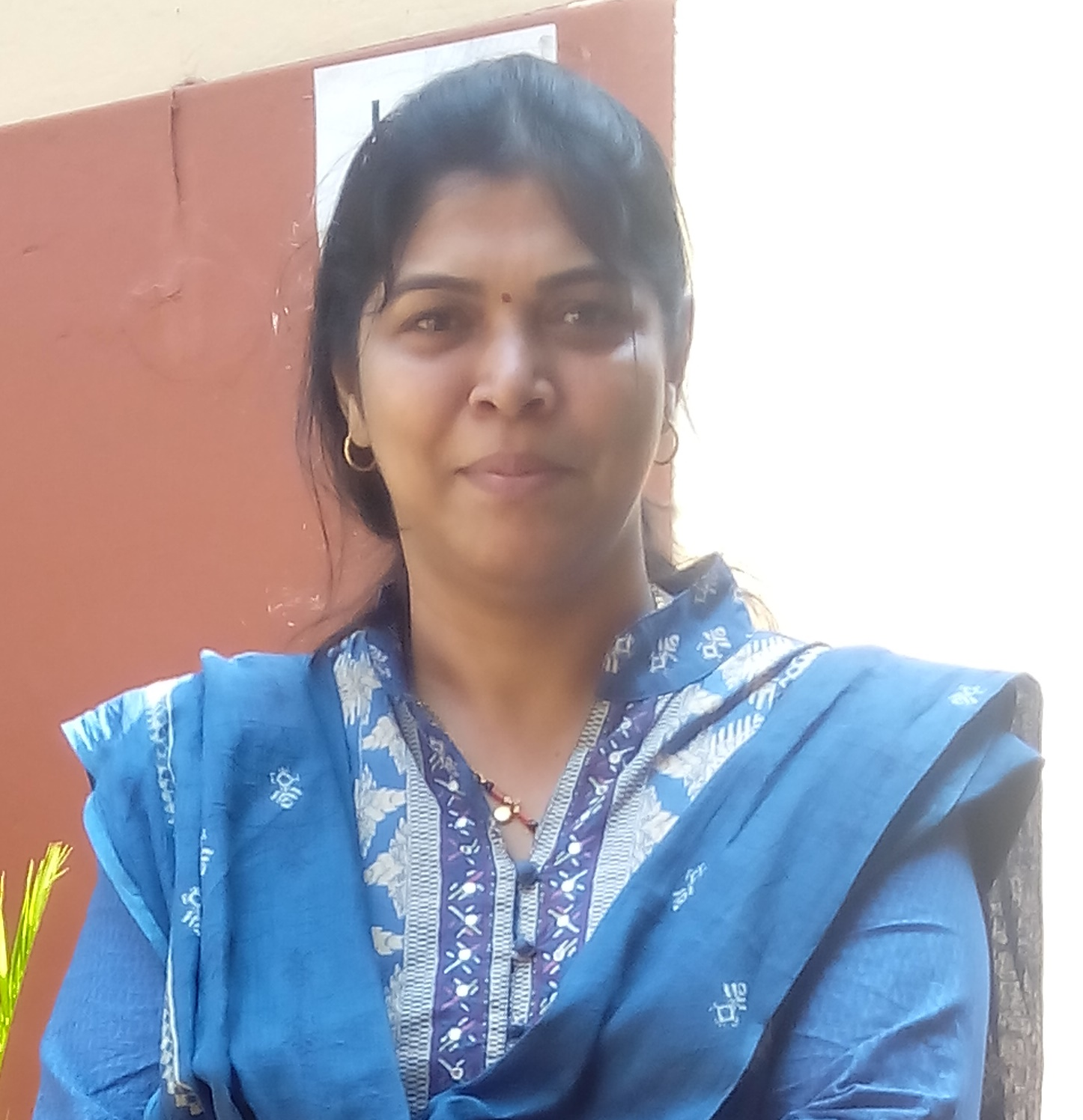 Photo of Anupama Prasad, a Kannada writer ಕನ್ನಡ: ಕನ್ನಡ ಬರಹಗಾರ್ತಿ ಅನುಪಮಾ ಪ್ರಸಾದ